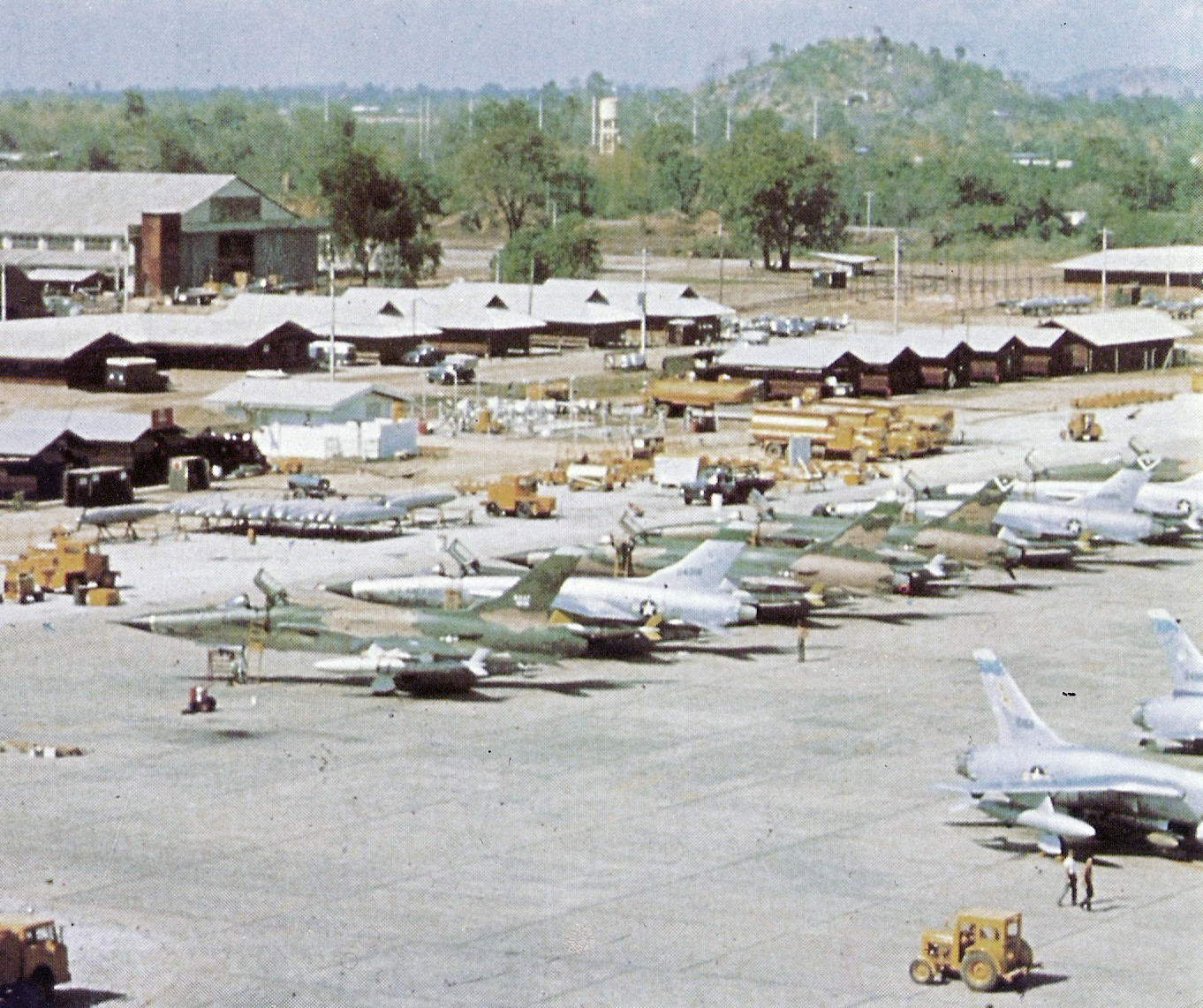 Republic F-105D Thunderchief fighter-bombers of the U.S. Air Force 4th Tactical Fighter Wing at Takhli Royal Thai Air Force Base, Thailand, in December 1965. Note that the F-105s are in the process of being camouflaged. The first plane on the left carries a AIM-9B Sidewinder air-to-air missile on its left outer wing pylon.